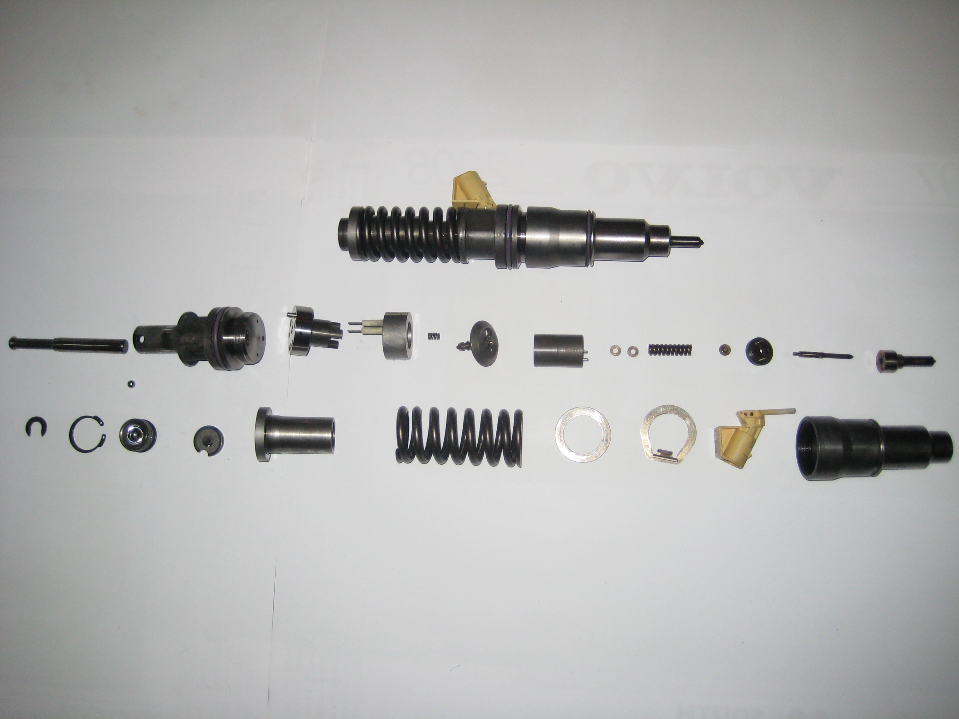 Side by side view of assembled and dismantled Delphi E1 unit injector from Volvo FH's 12.7 Litre (13L) diesel engine